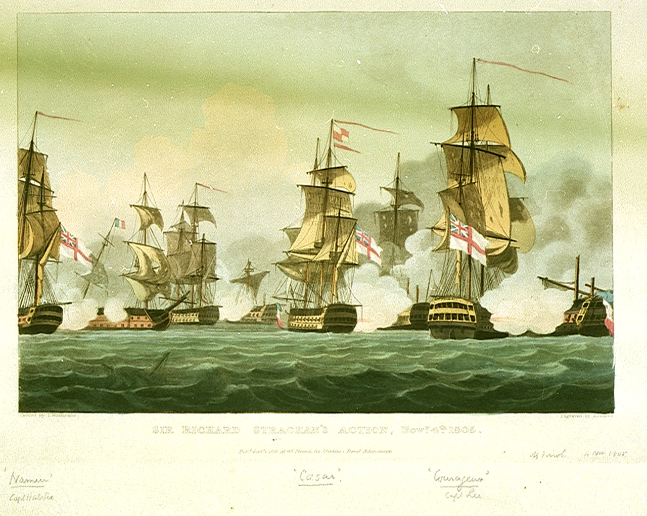 Battle of Cape Ortegal 1805